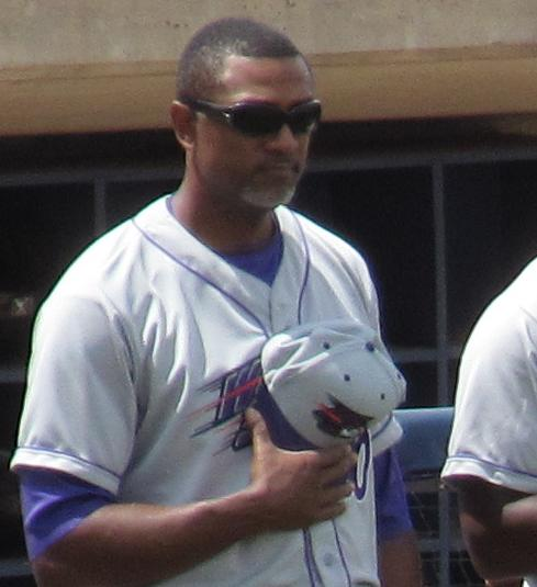 Rob Sasser - Coach Winston Salem Dash Hi Affiliate of the Chicago White Sox. April 28 2013 In Wilmington DE